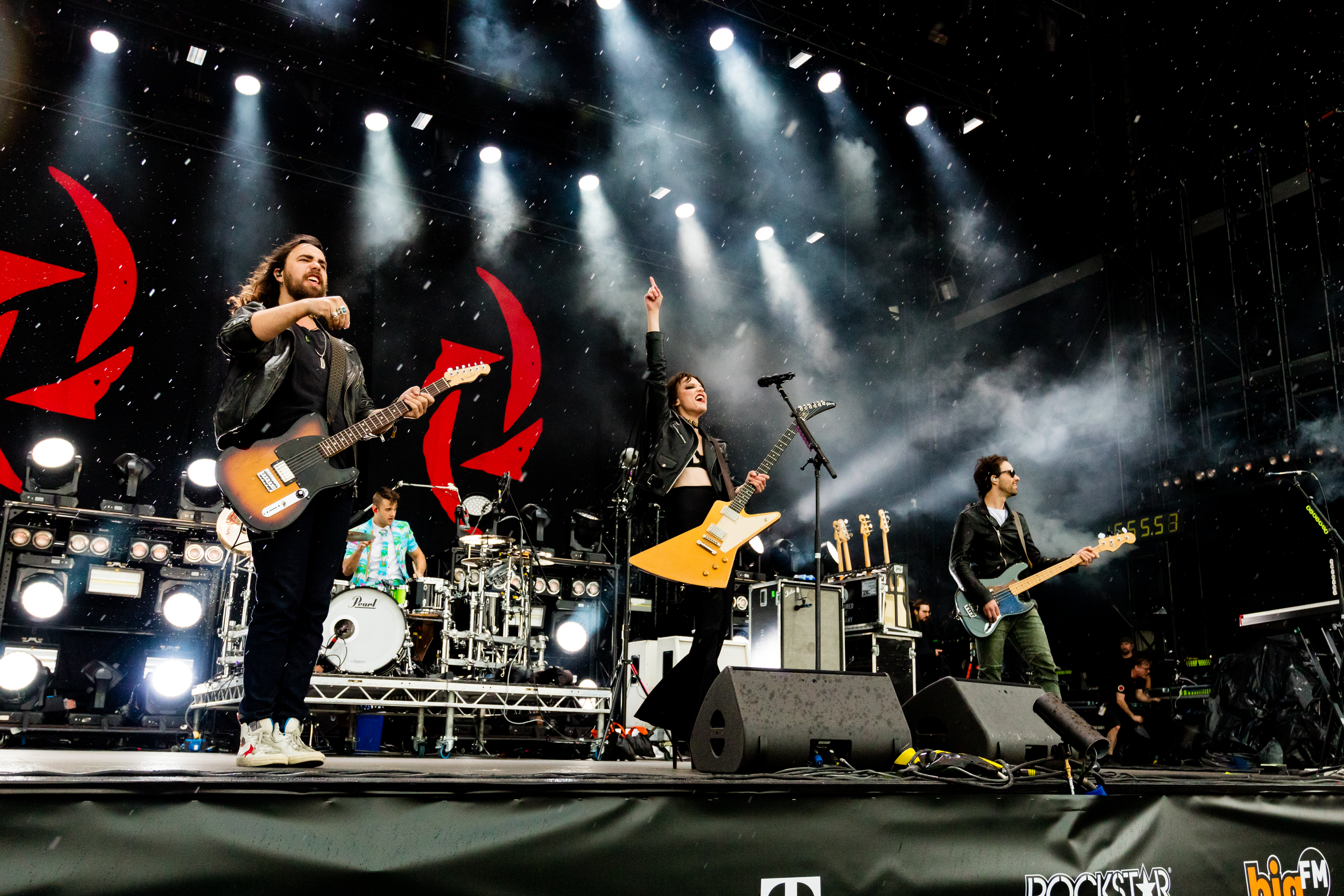 Halestorm during Rock am Ring ( at Nürburgring, Rheinland-Pfalz, Germany on 2019-06-07, Photo: Sven Mandel Promotion by Live Nation (